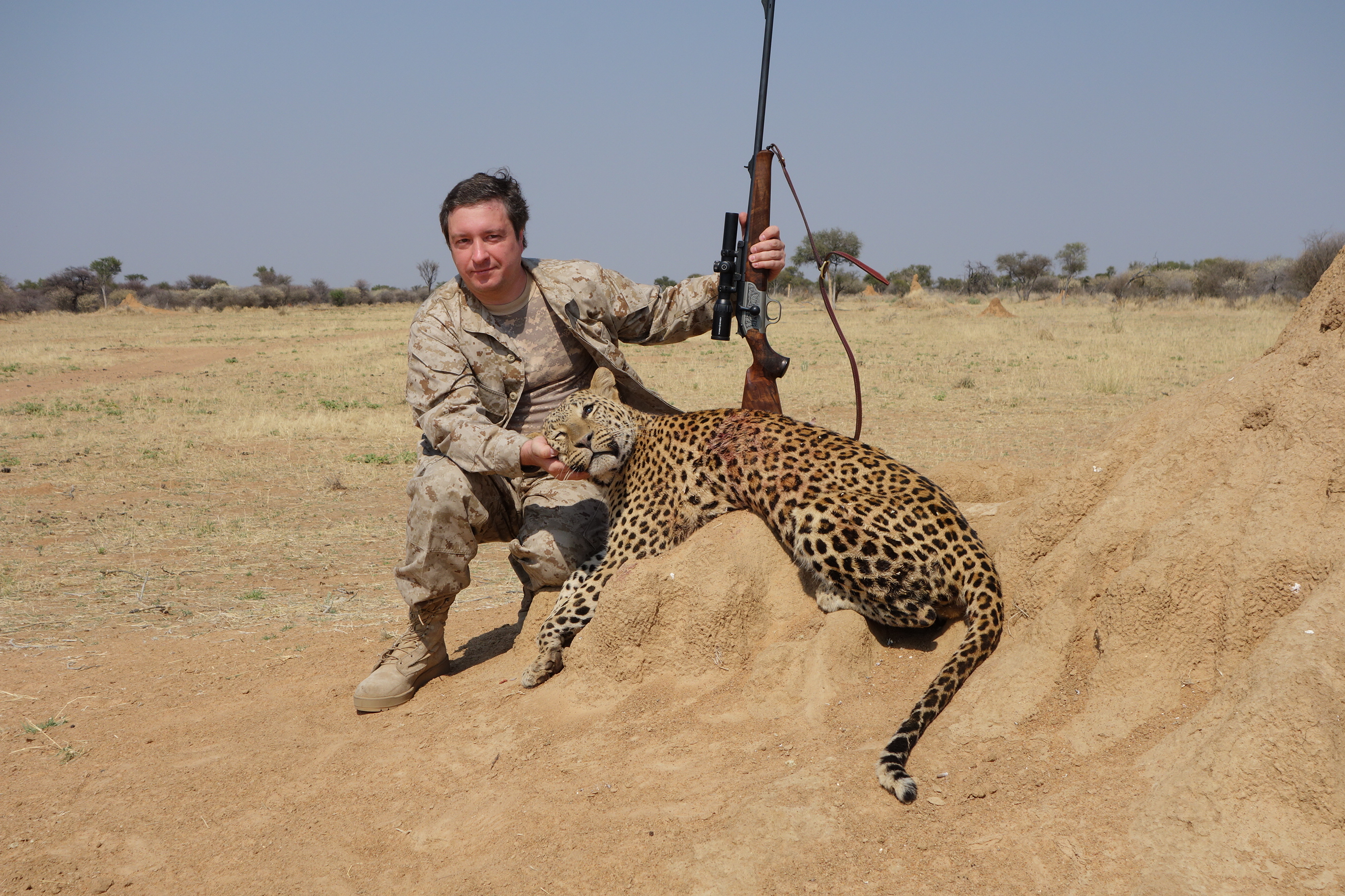 A male leopard of approximately 70 kg is shot in Namibia by a white hunter